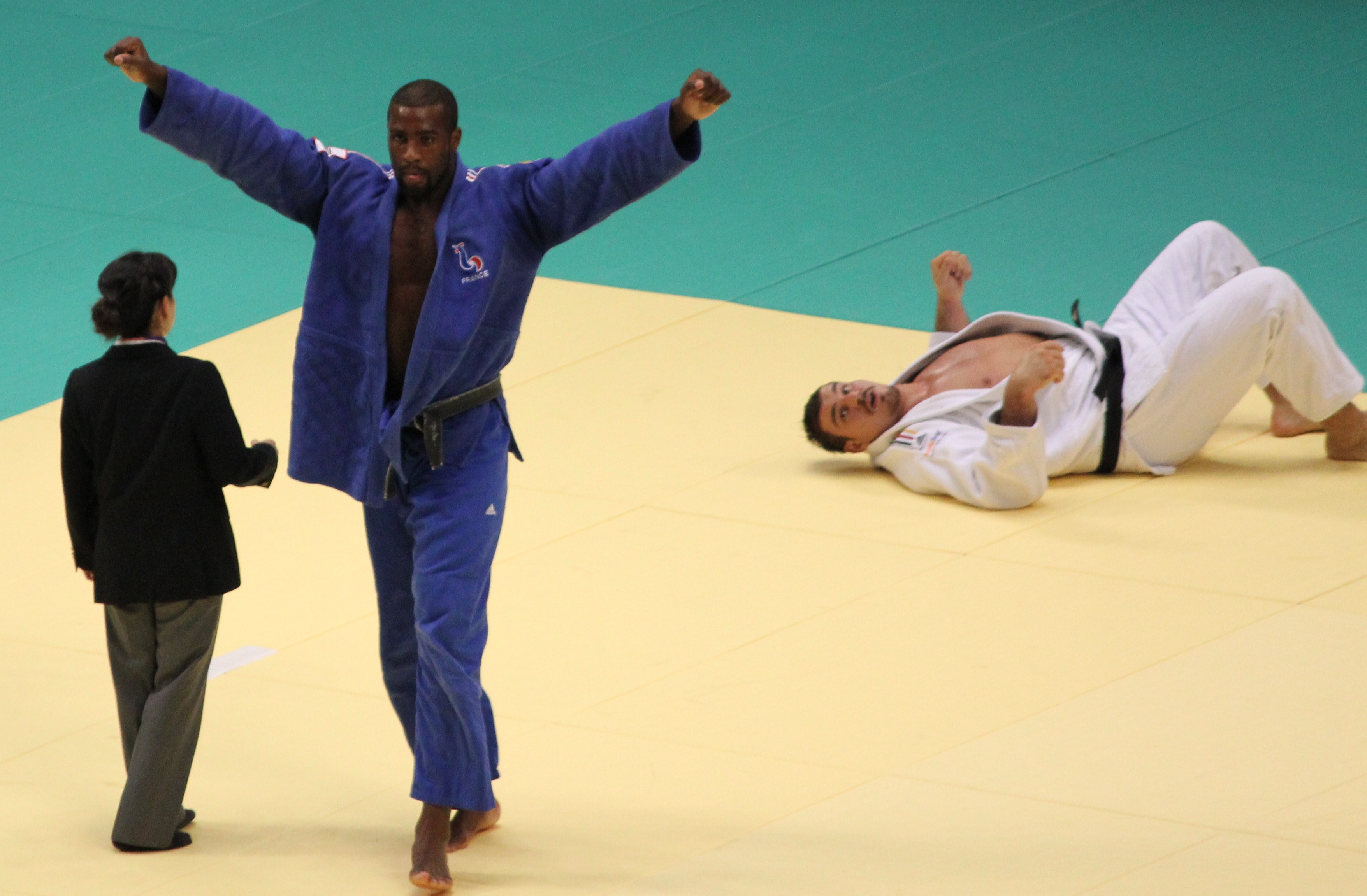 French judoka Teddy Riner defeating German judoka Andreas Tölzer during the final of +100 Kg category during the 2010 World Judo Championships held in Tokyo